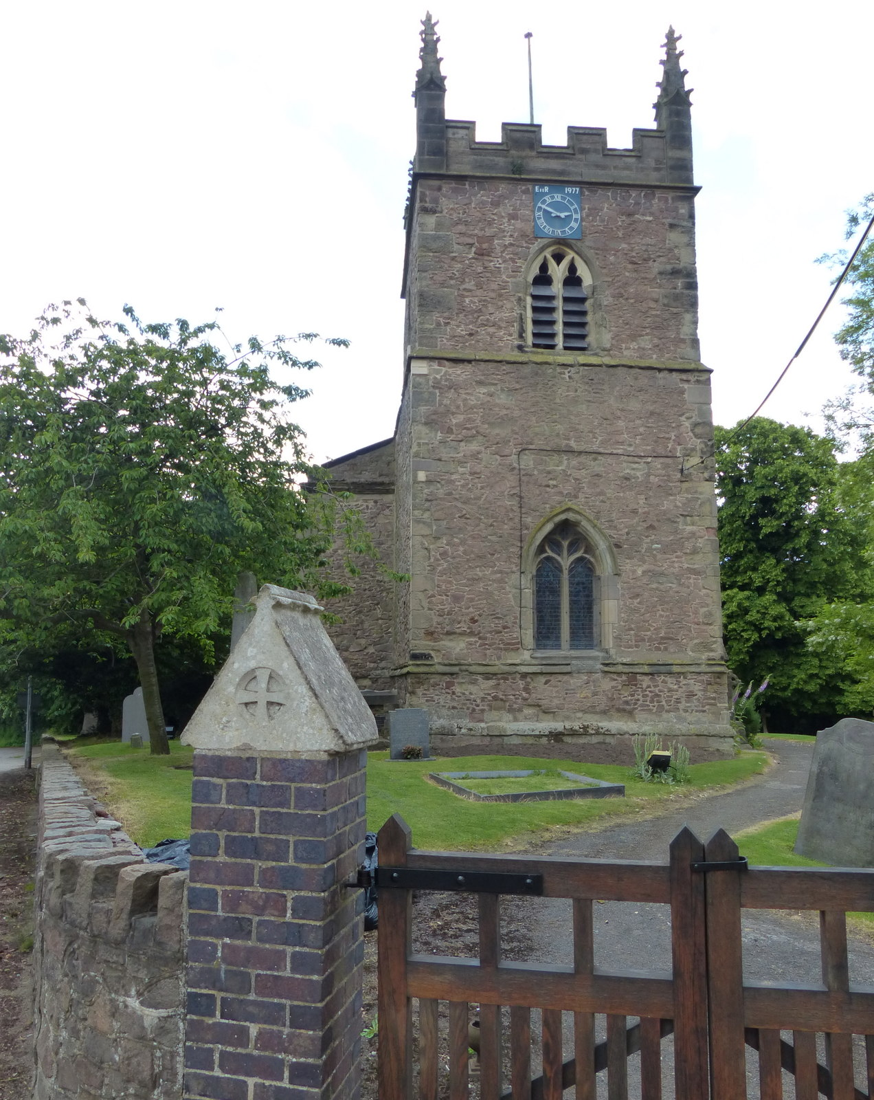 Church of St Helens in Sharnford